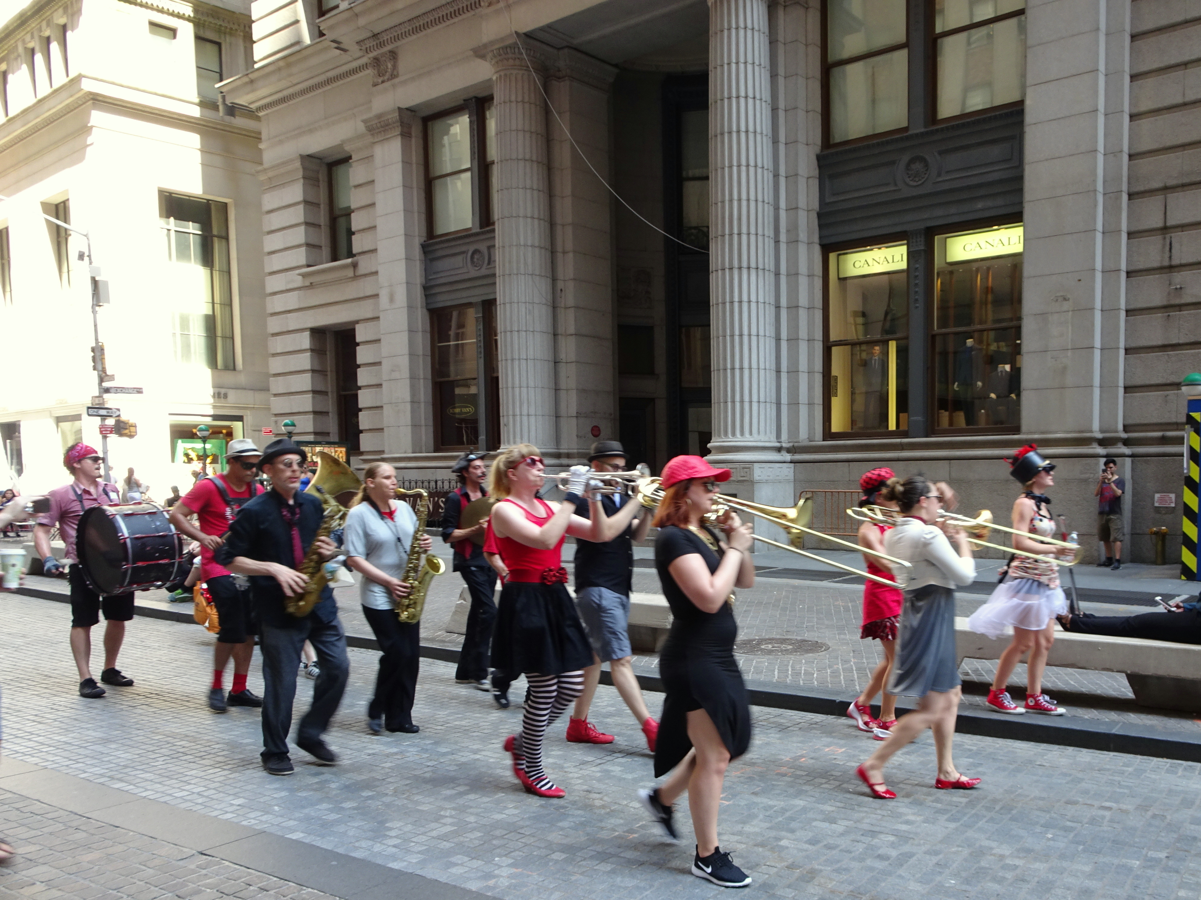 Looking east at start of march down Broad Street